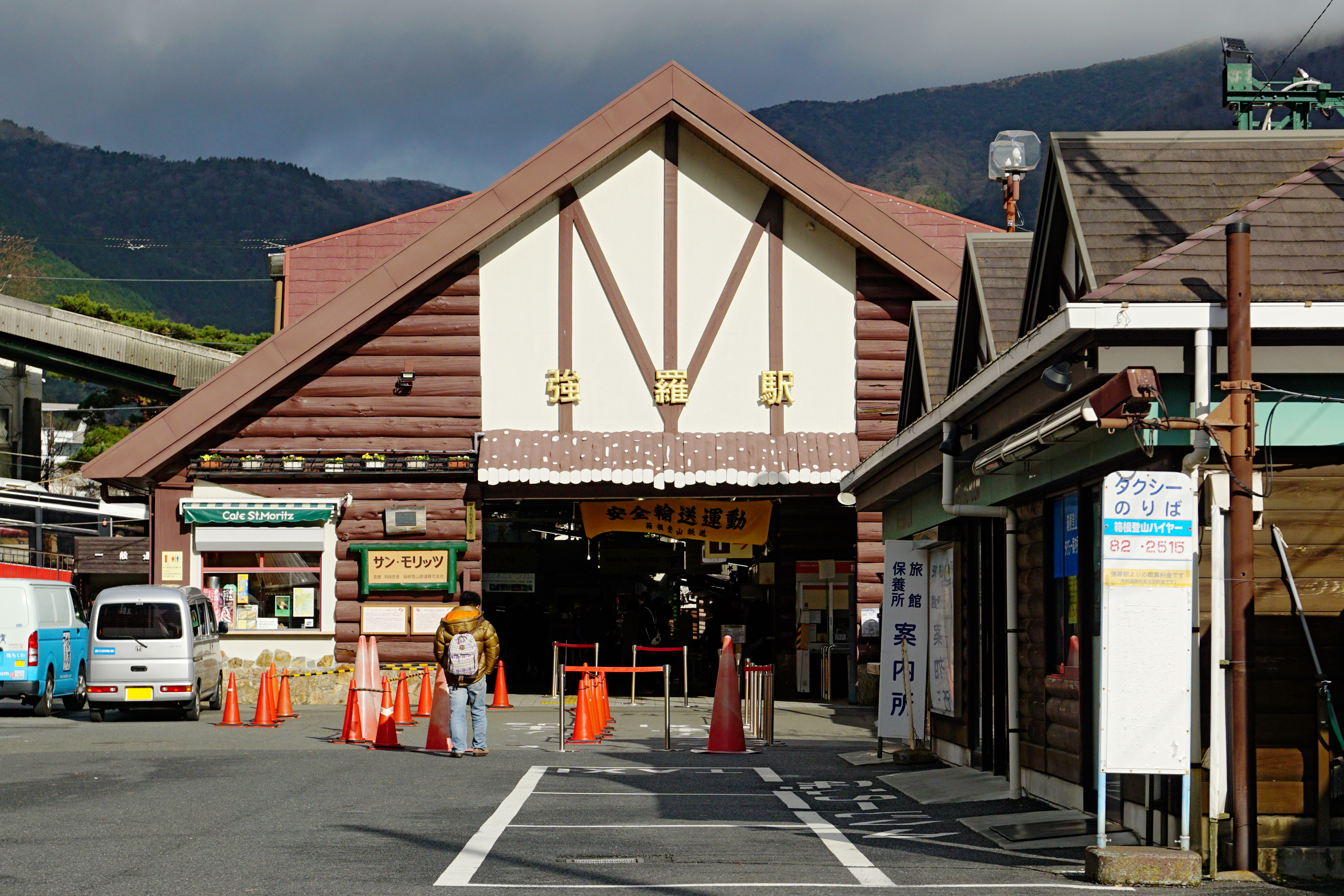 Gōra Station on the Hakone Tozan Railway in Hakone, Kanagawa prefecture, Japan